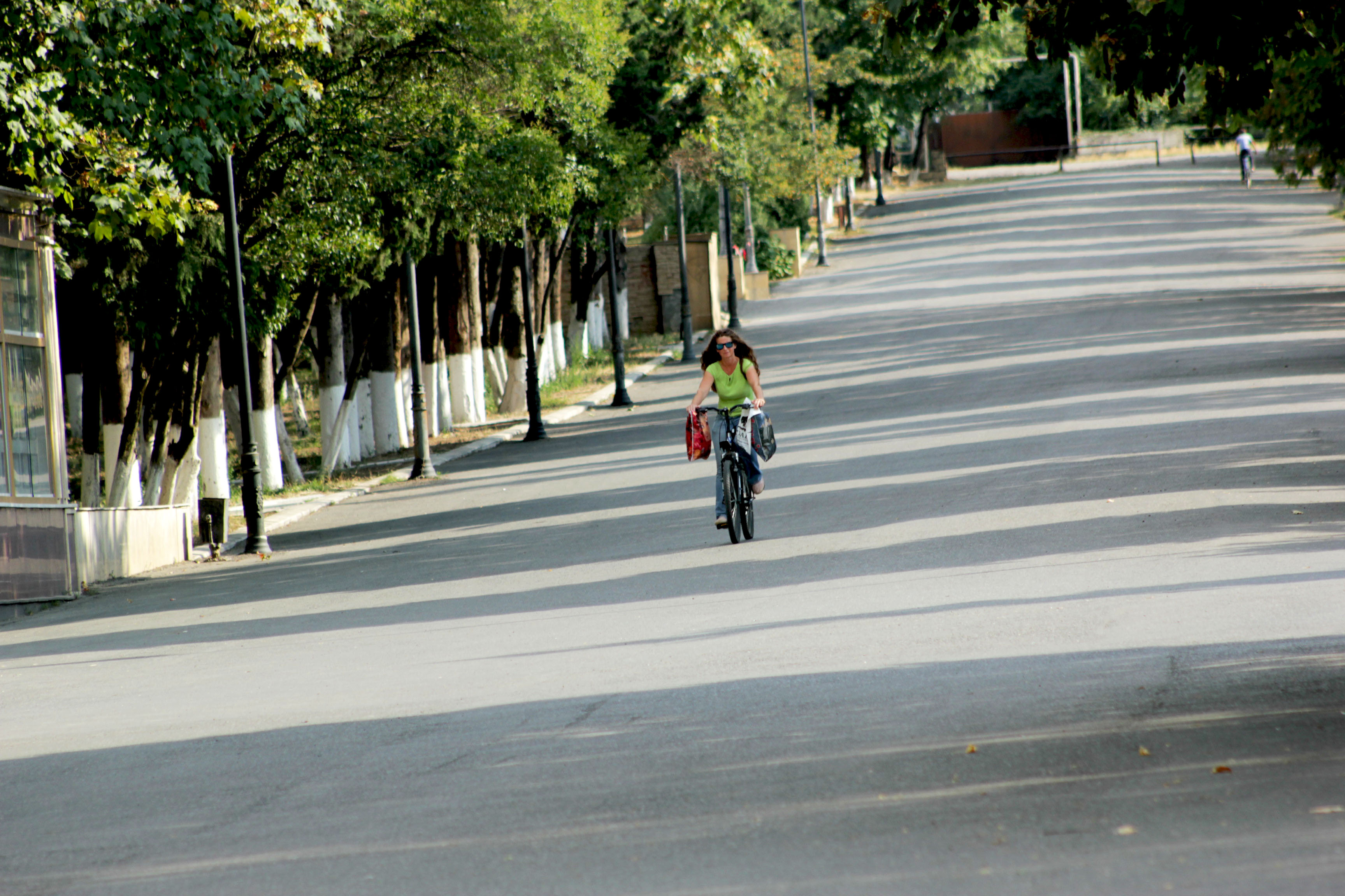 Центральная улица села Ивановка/ улица имени Г. Алиева. в прошлом улица им. Ленина (в народе больше известна как “Большая”. На этой улице расположены основные объекты колхоза: дом культуры, контора, универмаг, памятник ВОВ, парки, пруд, а также дом-музей Никитина.